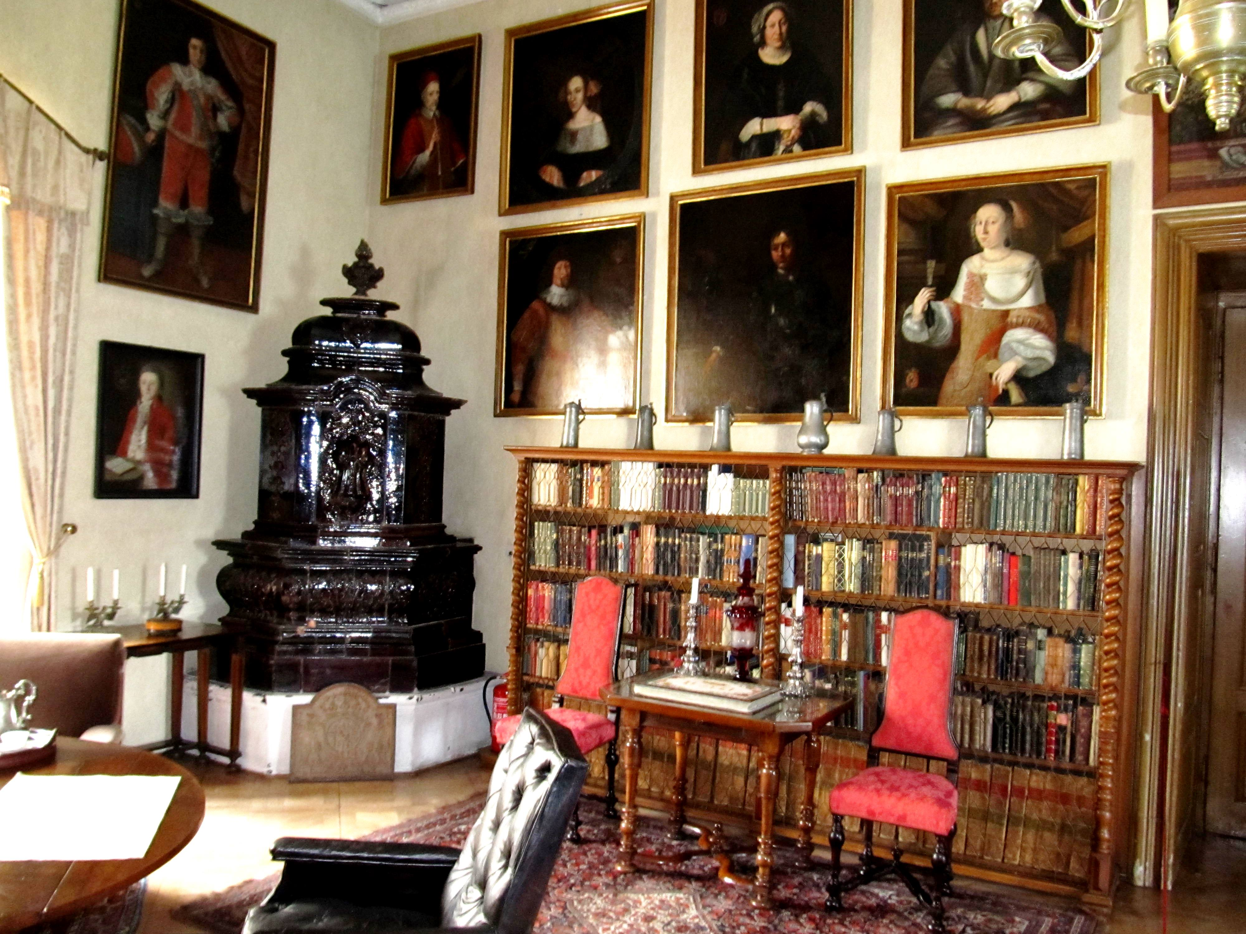 Castle Hruby Rohozec, library